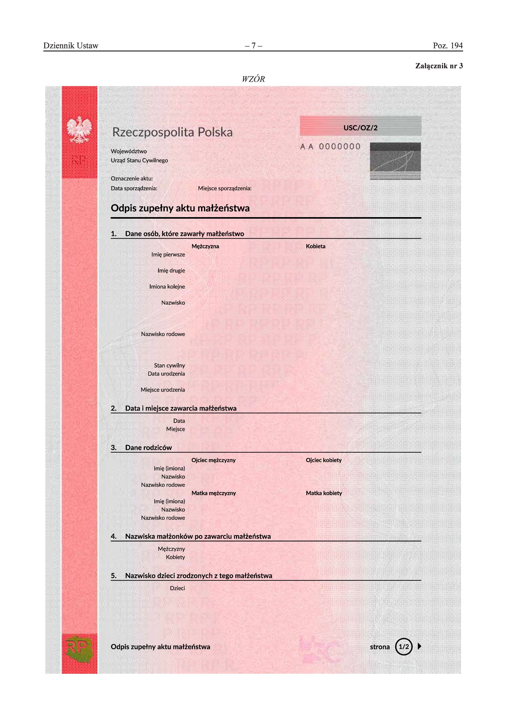 Polish marriage certificate, page 1 of 2, new version since 2015